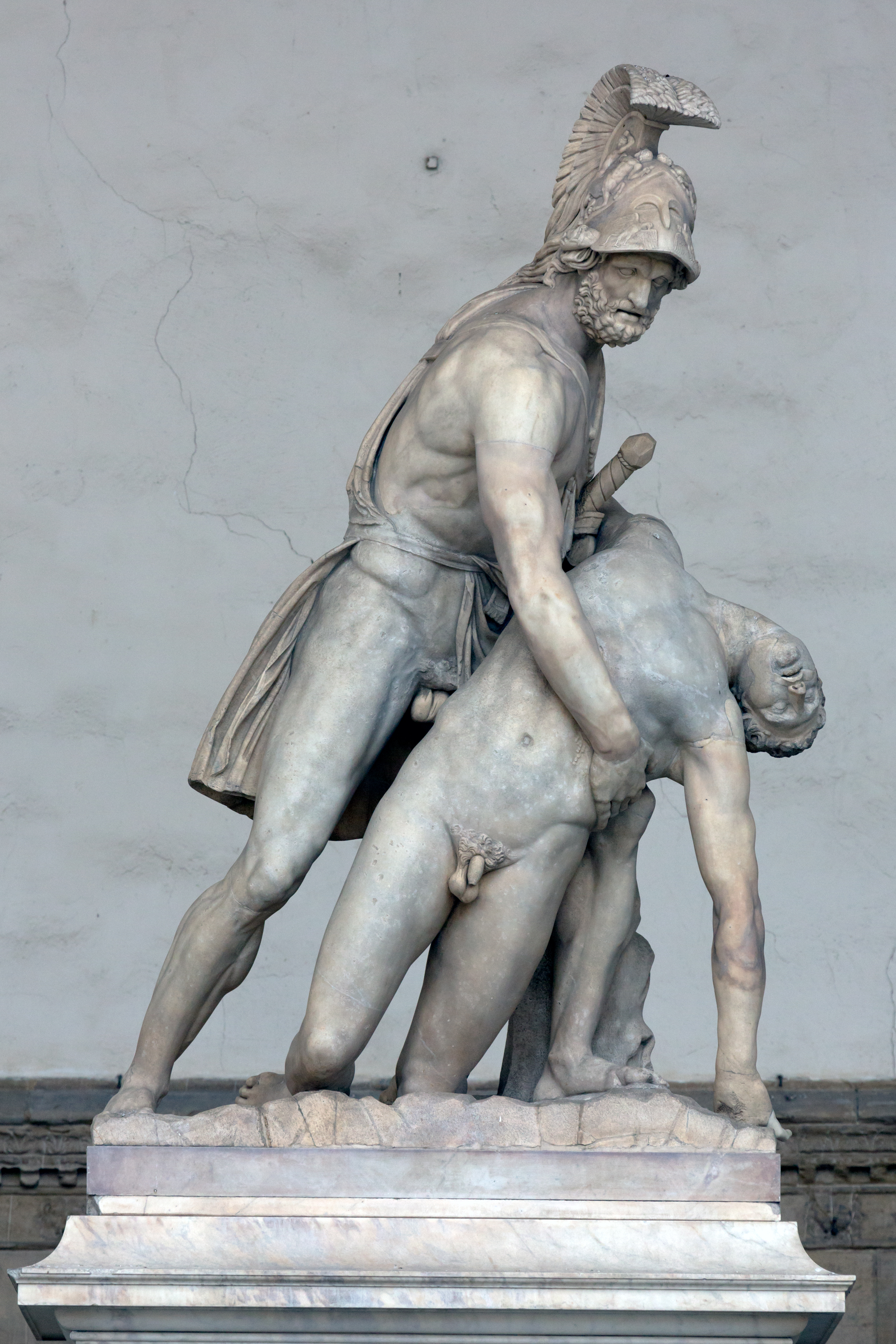 Pasquino Group